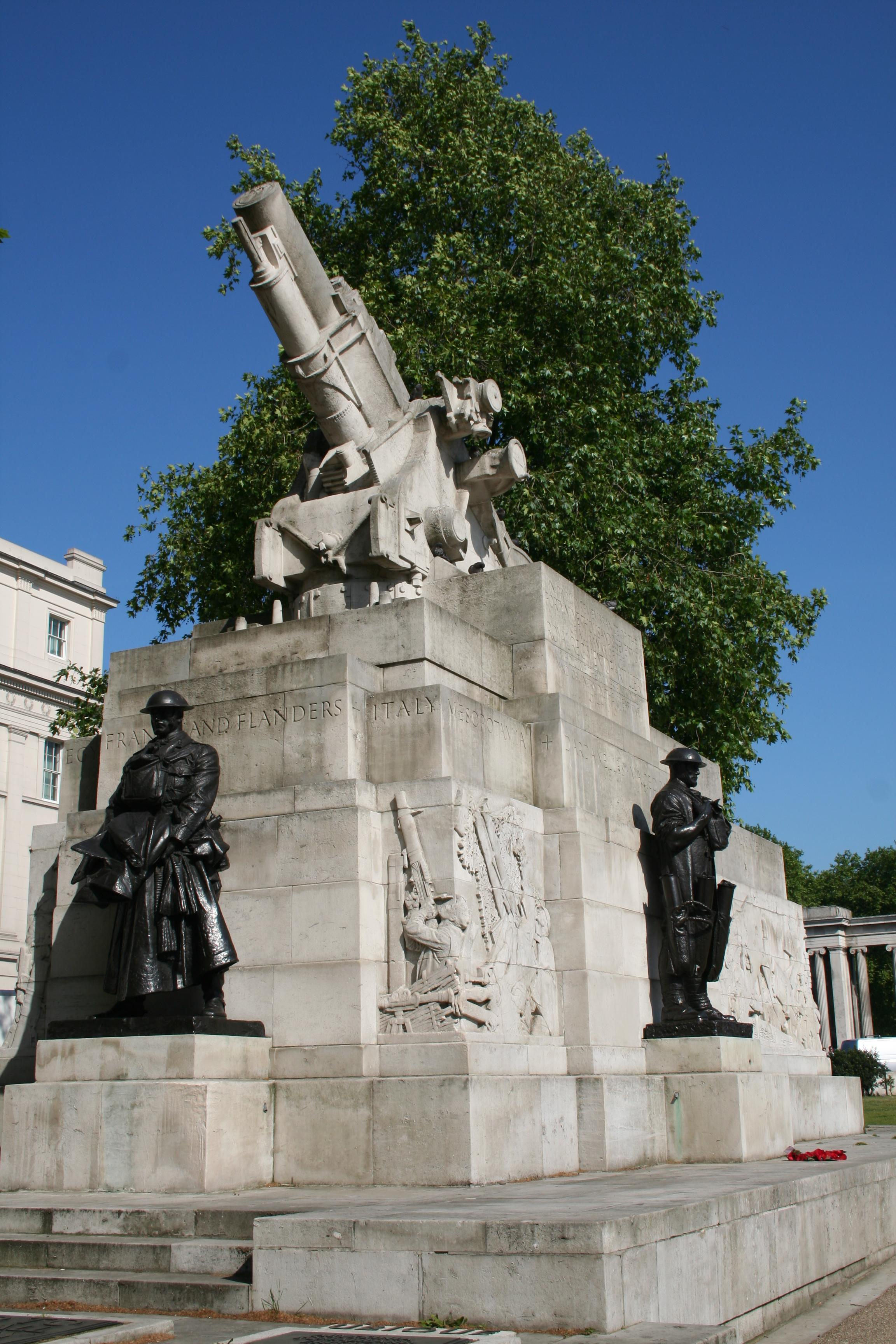 Royal Artillery Monument, Hyde Park